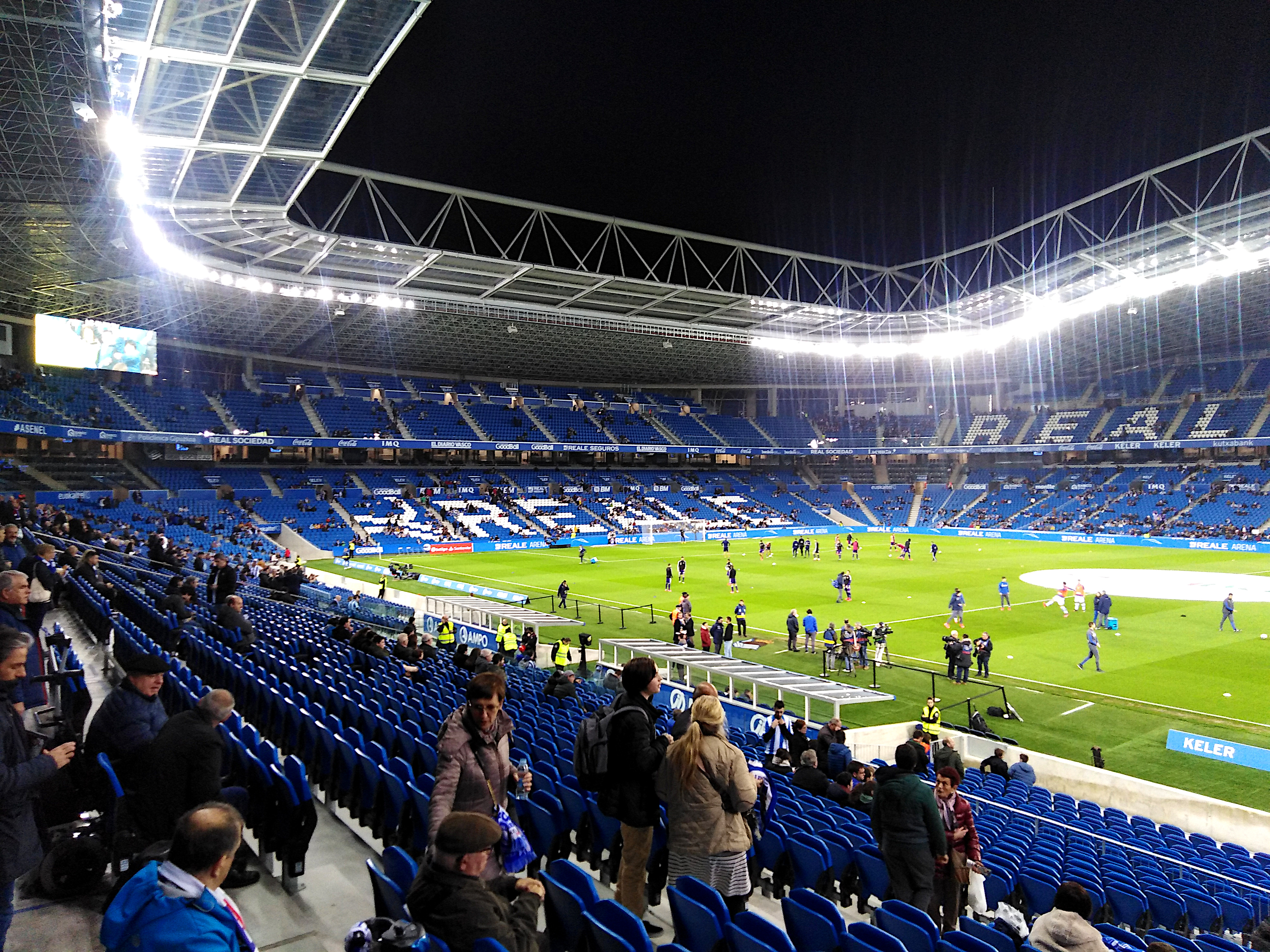 Anoeta stadium, Donostia-San Sebastian, Gipuzkoa, Basque Country